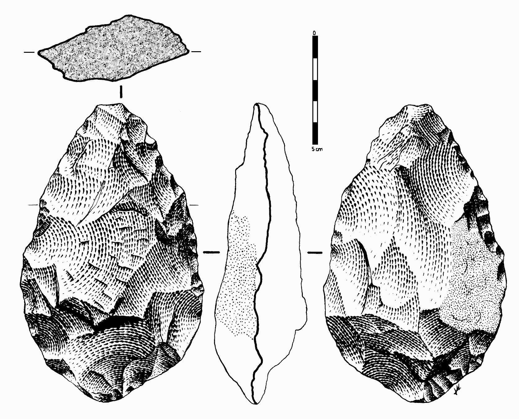 Tipycal Acheulean Handhaxe, it has tear form and proceeds from a superficial site in the Zamora province (Spain), in the Douro valley.